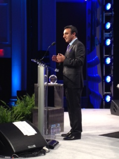 Chobani President and CEO Hamdi Ulukaya delivers remarks after receiving the National Entrepreneurial Success of the Year Award for 2012 by the U.S. Small Business Administration (SBA) in Washington, D.C., on May 23, 2012. [State Department photo/ Public Domain]